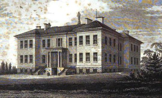 Derby Royal Infirmary c 1819 from a book by Charles Sylvester